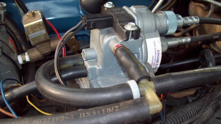 electropneumatic cruise control valve of a 1978 Oldsmobile delta 88 {